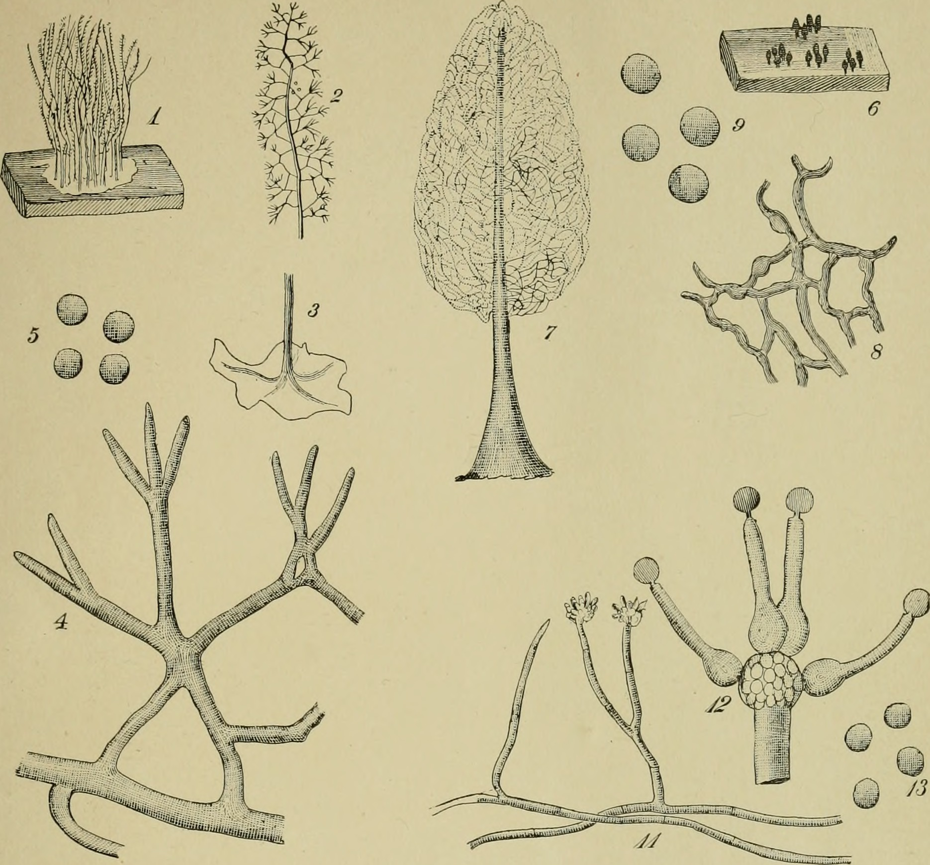 Title: Annual report of the State Botanist of the State of New York Year: 1888 (1880s) Authors: Peck, Charles H. (Charles Horton), 1833-1917; New York (State). State Botanist Subjects: Plants; Fungi Publisher: Albany : Troy Press Text Appearing Before Image: FUNGI. state Museum Natural History, 43. Plate 3. Text Appearing After Image: I JS Q ^ 2.J ^, ^^ 00^/